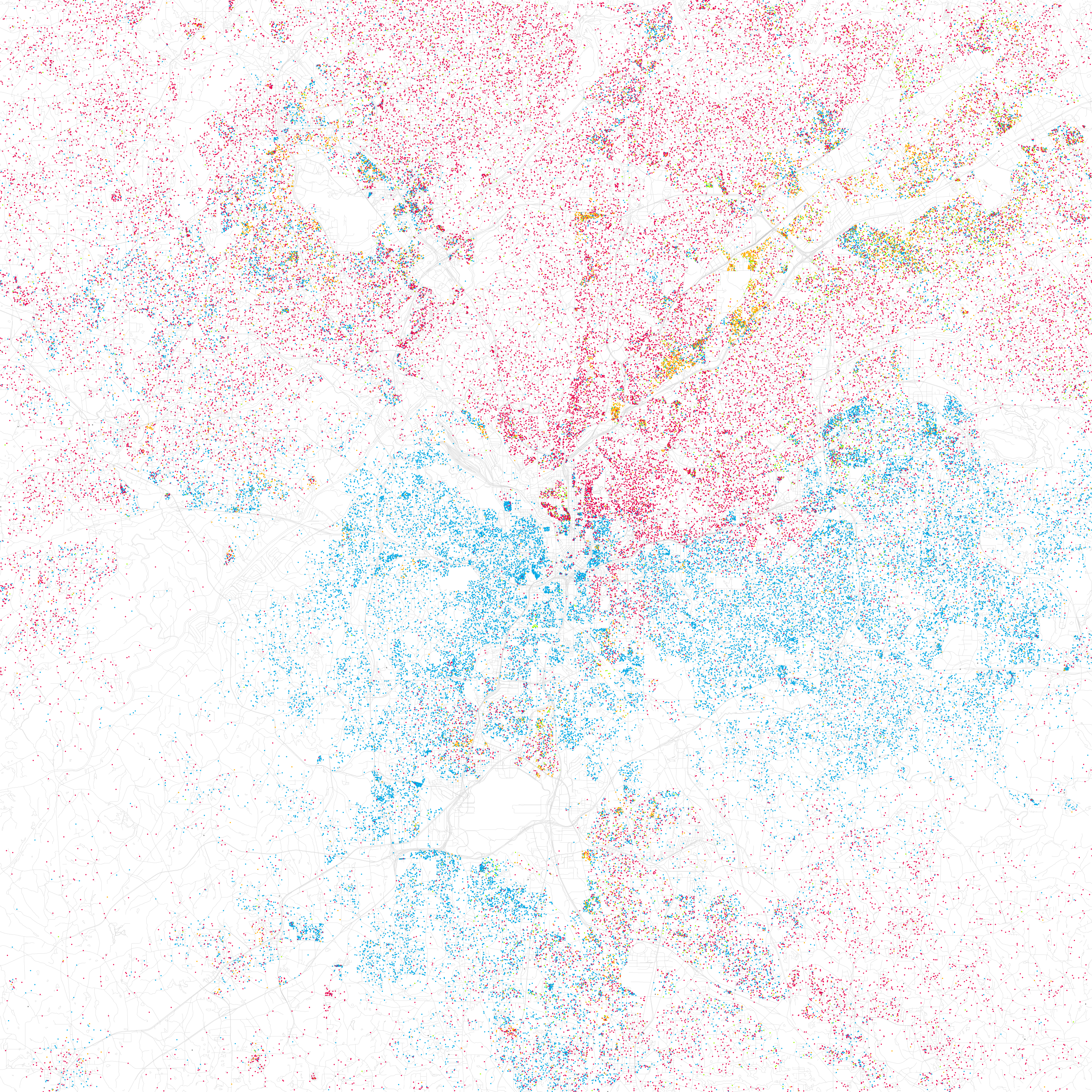 Atlanta. To match his map, Red is White, Blue is Black, Green is Asian, Orange is Hispanic, Gray is Other, and each dot is 25 people. Data from Census 2000. Base map © OpenStreetMap, CC-BY-SA